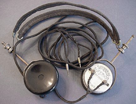 Photo of antique headphones; Brandes manufactured between 1919 and 1921. These were used in early radio work and illustrate the original context of the term "headphones."